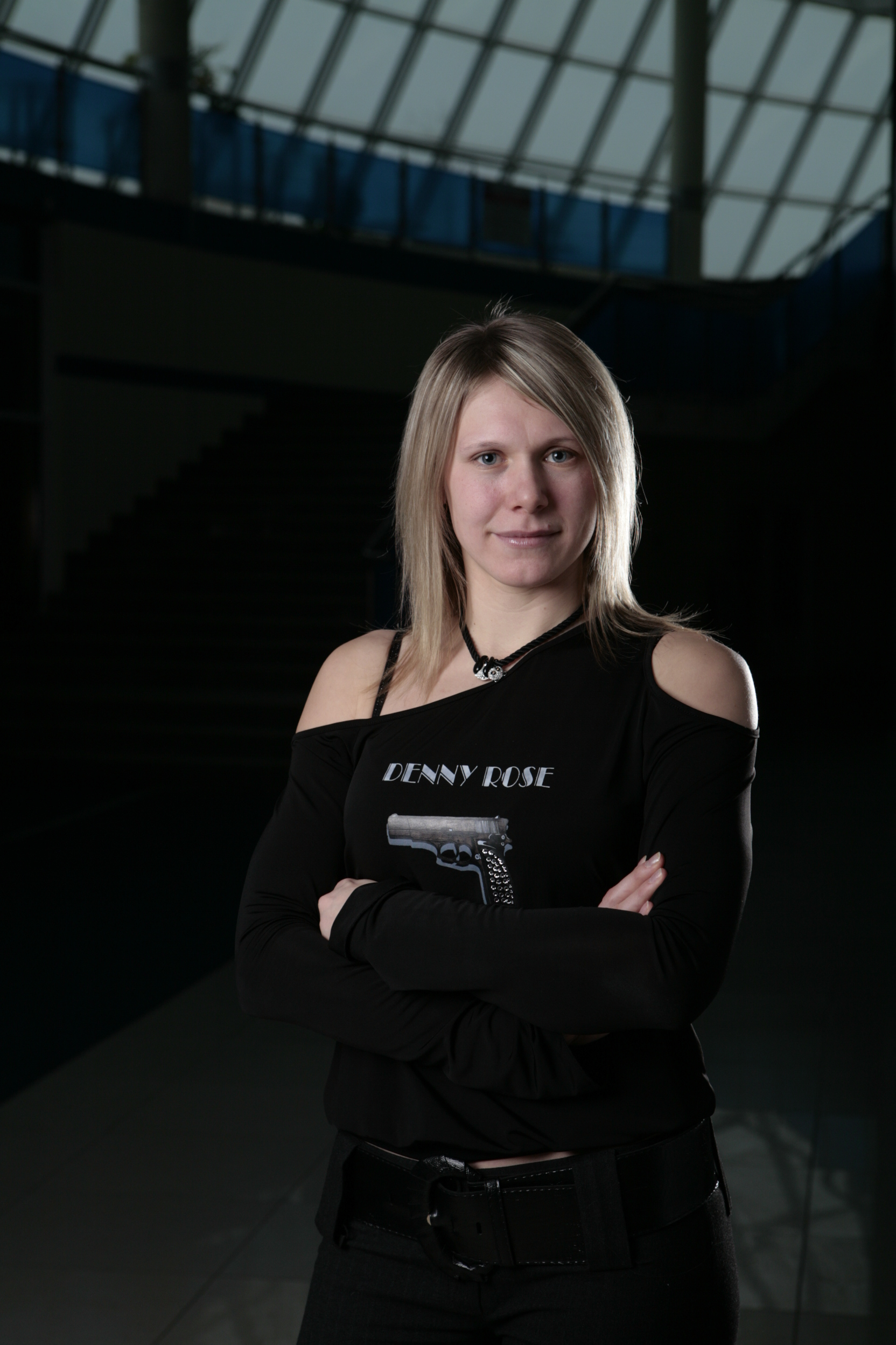 Best female Russian hockey player in season 2007/2008 Ekaterina Smolentseva.